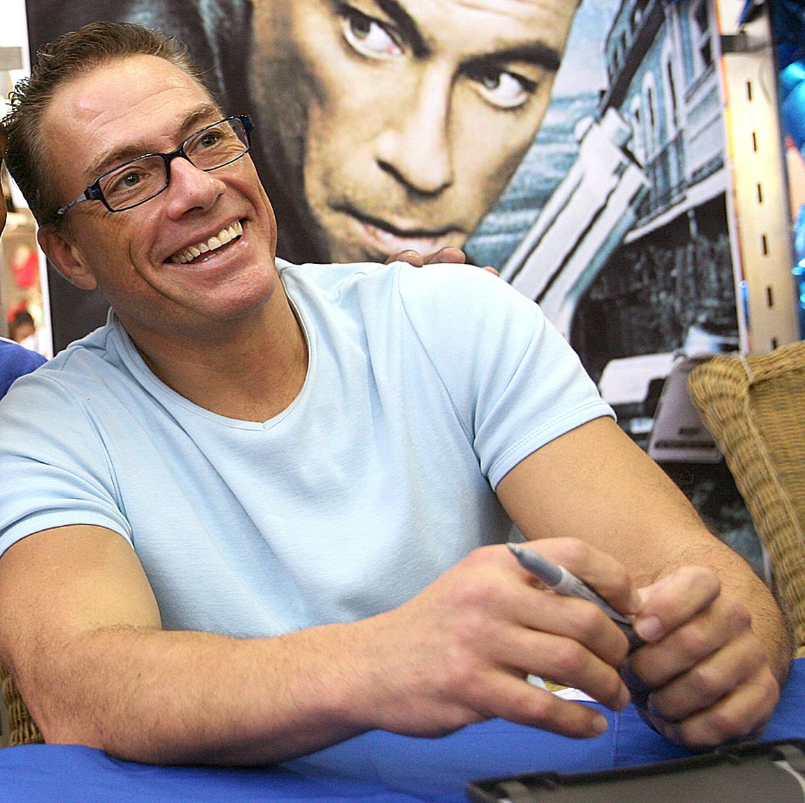 Actor Jean-Claude Van Damme ("Until Death") June 2, 2007, at the base exchange at Lackland Air Force Base, Texas.